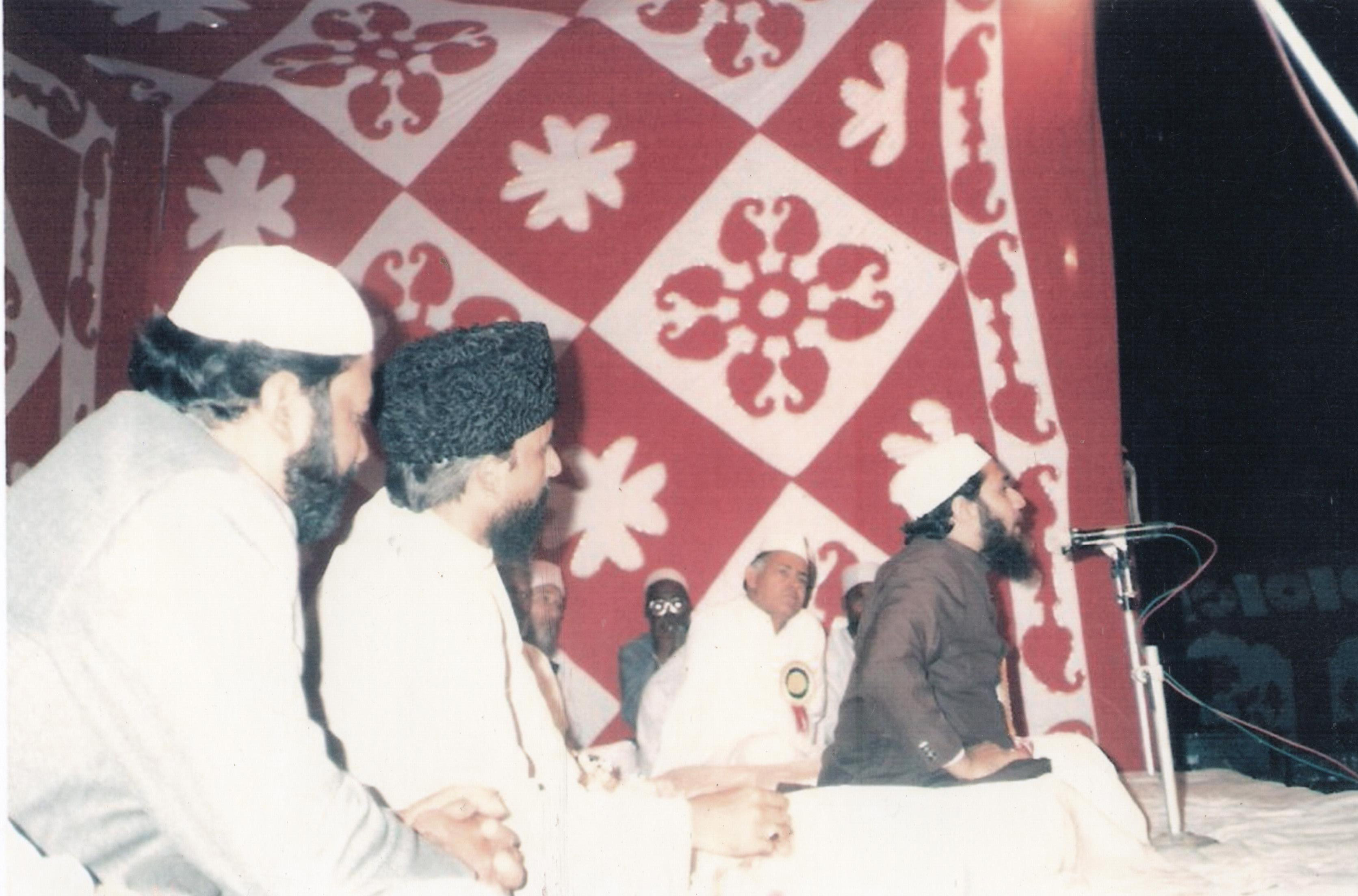 Quran hadith conference